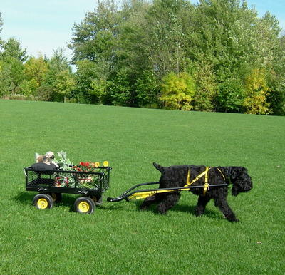 A Black Russian Terrier pulling a cart. Black Russian Terriers have been used for a variety of jobs, including carting.